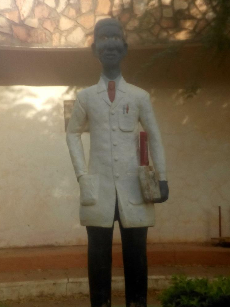 Statue of Abdou Moumouni Dioffo, Niamey.